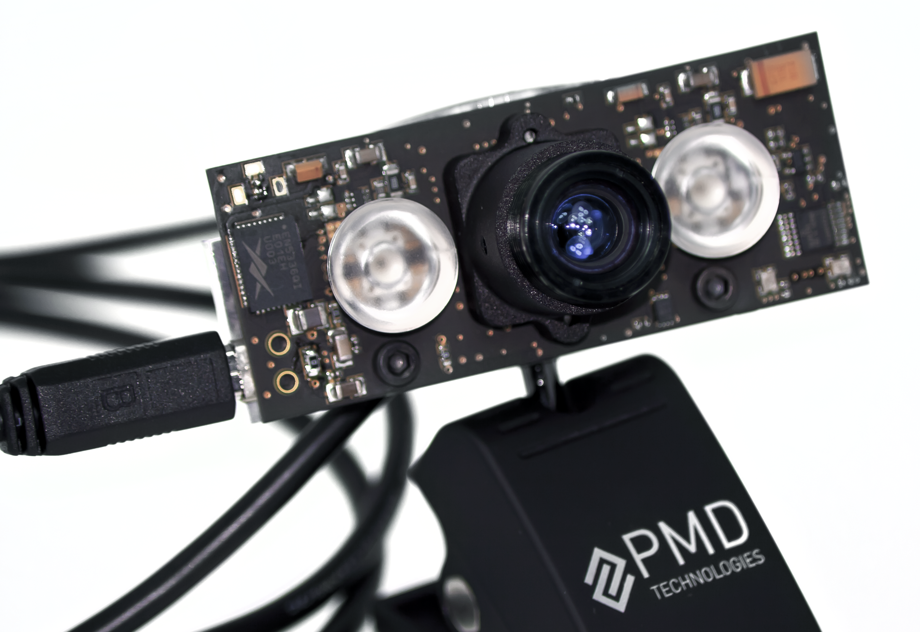 Image of CamBoard